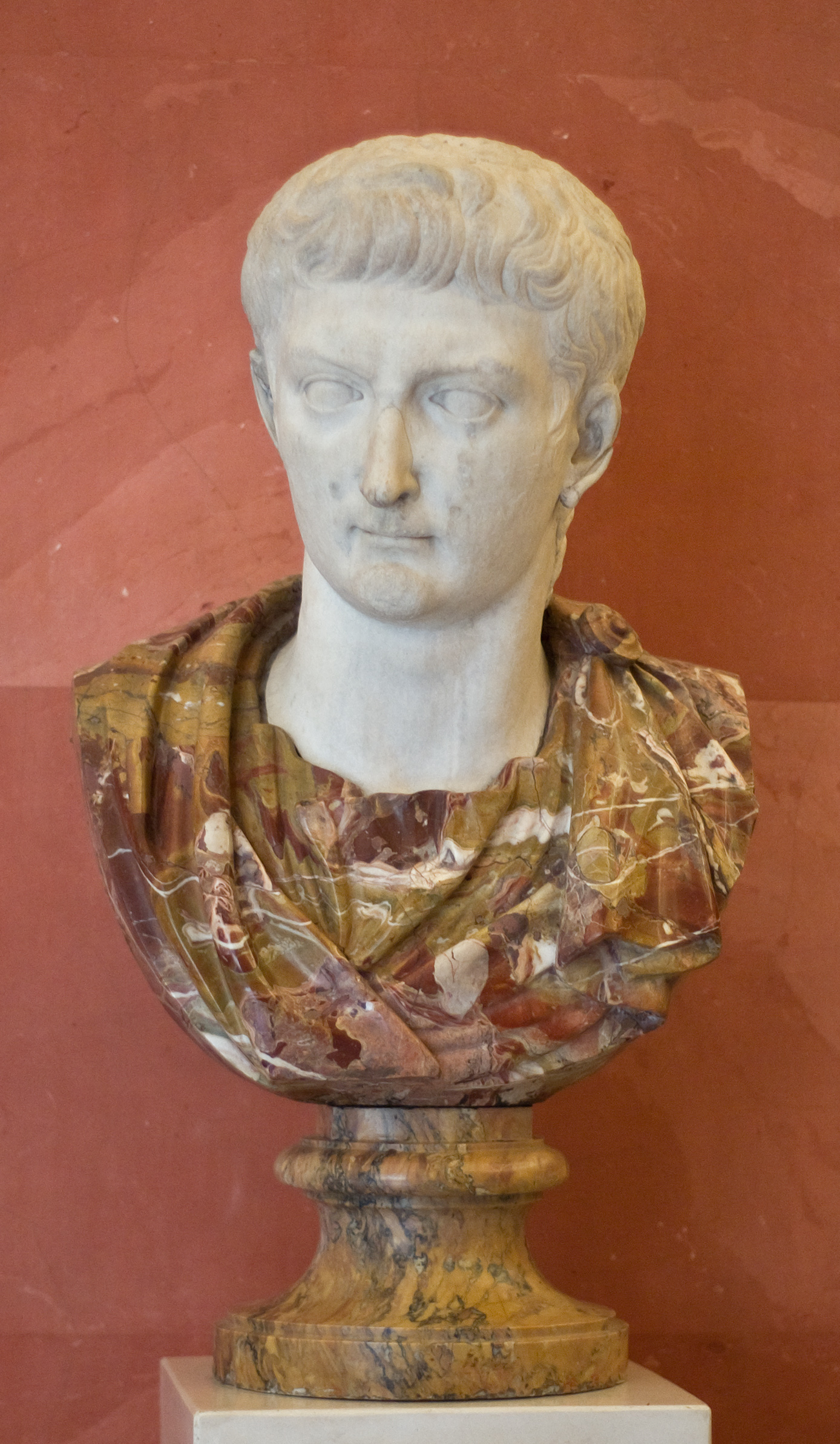 Bust of Tiberius Emperor 14-37 A.D.; First quater of the 1st Century A.D.; Marible. Hermitage